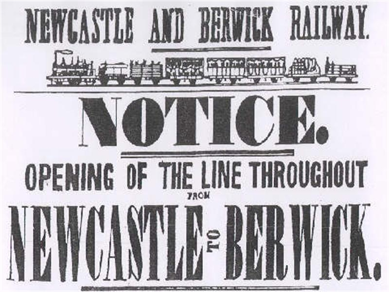 The Newcastle & Berwick Railway opened in July 1847.